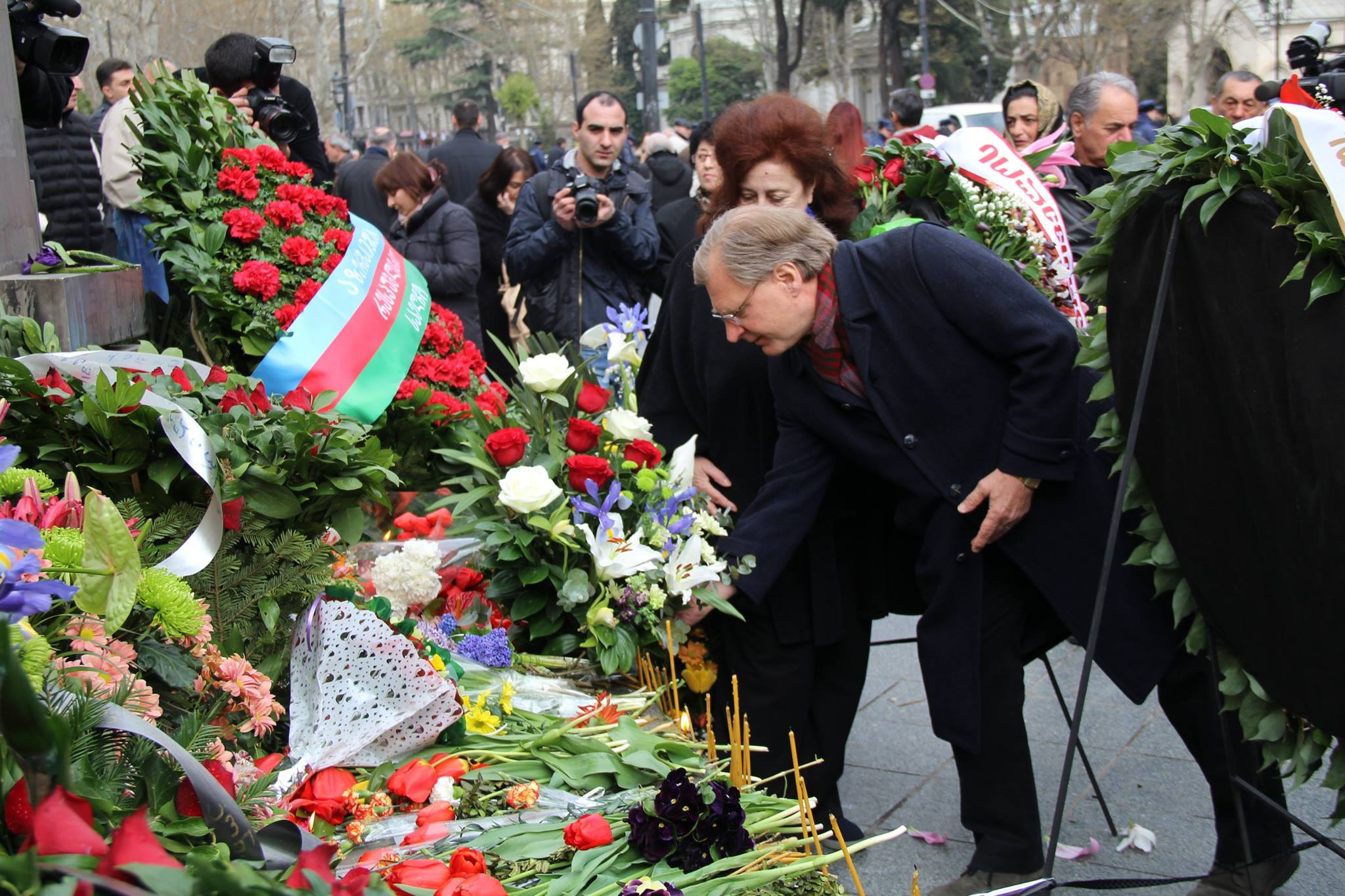 The U.S. Ambassador to Georgia Richard Norland lays a wreath at the April 9 memorial on Rustaveli Boulevard in Tbilisi.